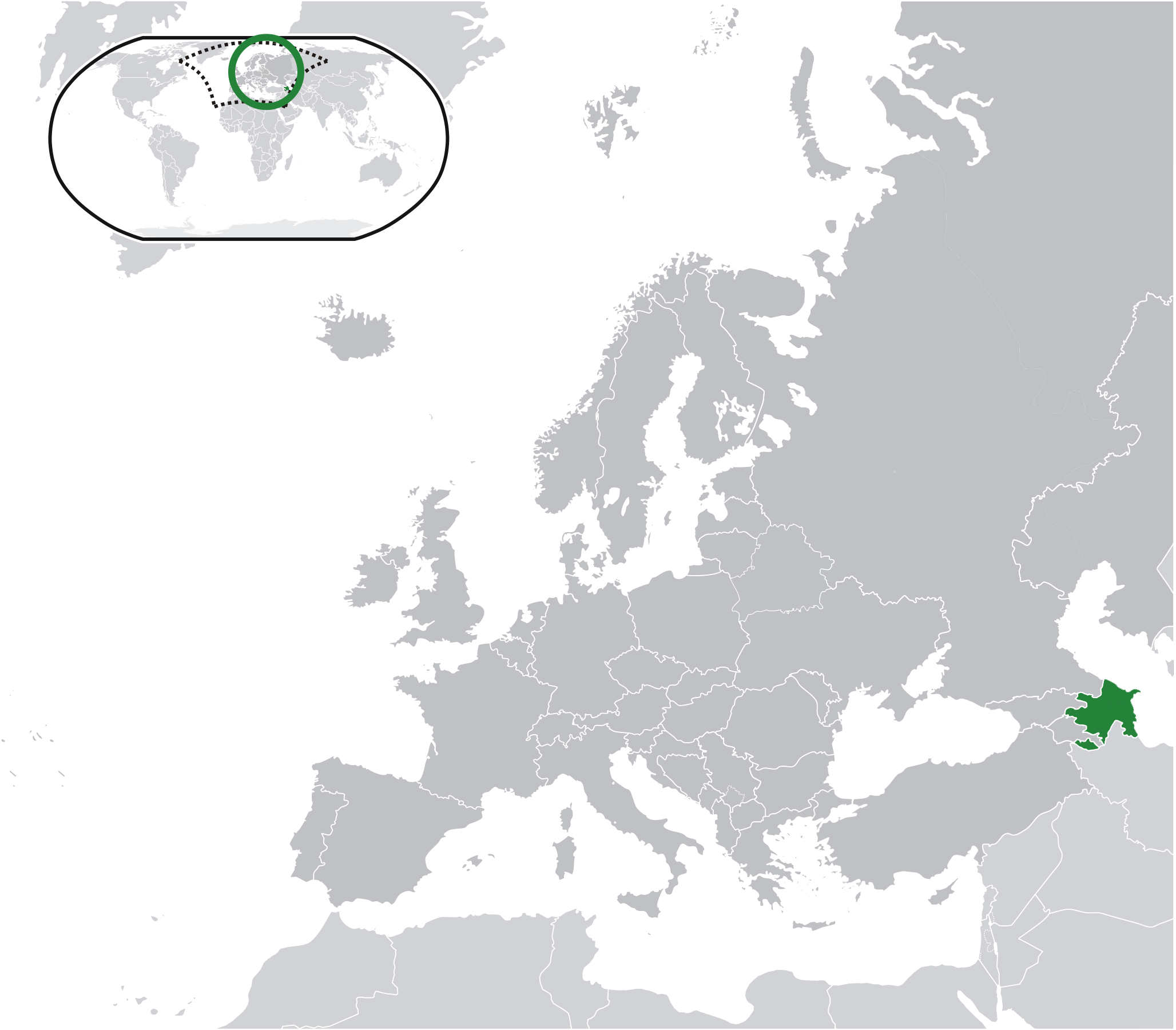 Location of Azerbaijan in Europe for UN